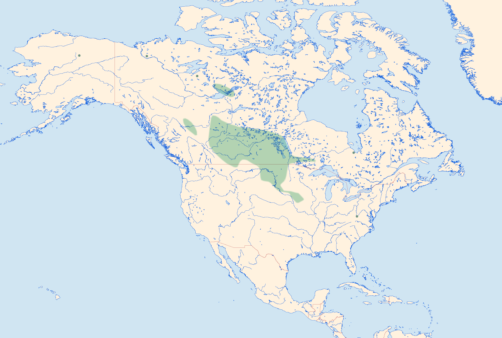 Distribution of Prairie Bluet (Coenagrion angulatum). Data Sources (In case of discrepancies in the map source the youngest in each data source was used): Dennis Paulson: Dragonflies and Damselflies of the East, Princeton Field Guides, Princeton University Press, New Jersey 2011, ISBN 978-0-691-12283-0. Dennis Paulson: Dragonflies and Damselflies of the West, Princeton Field Guides, Princeton University Press, New Jersey 2000, ISBN 978-0-691-12281-6.